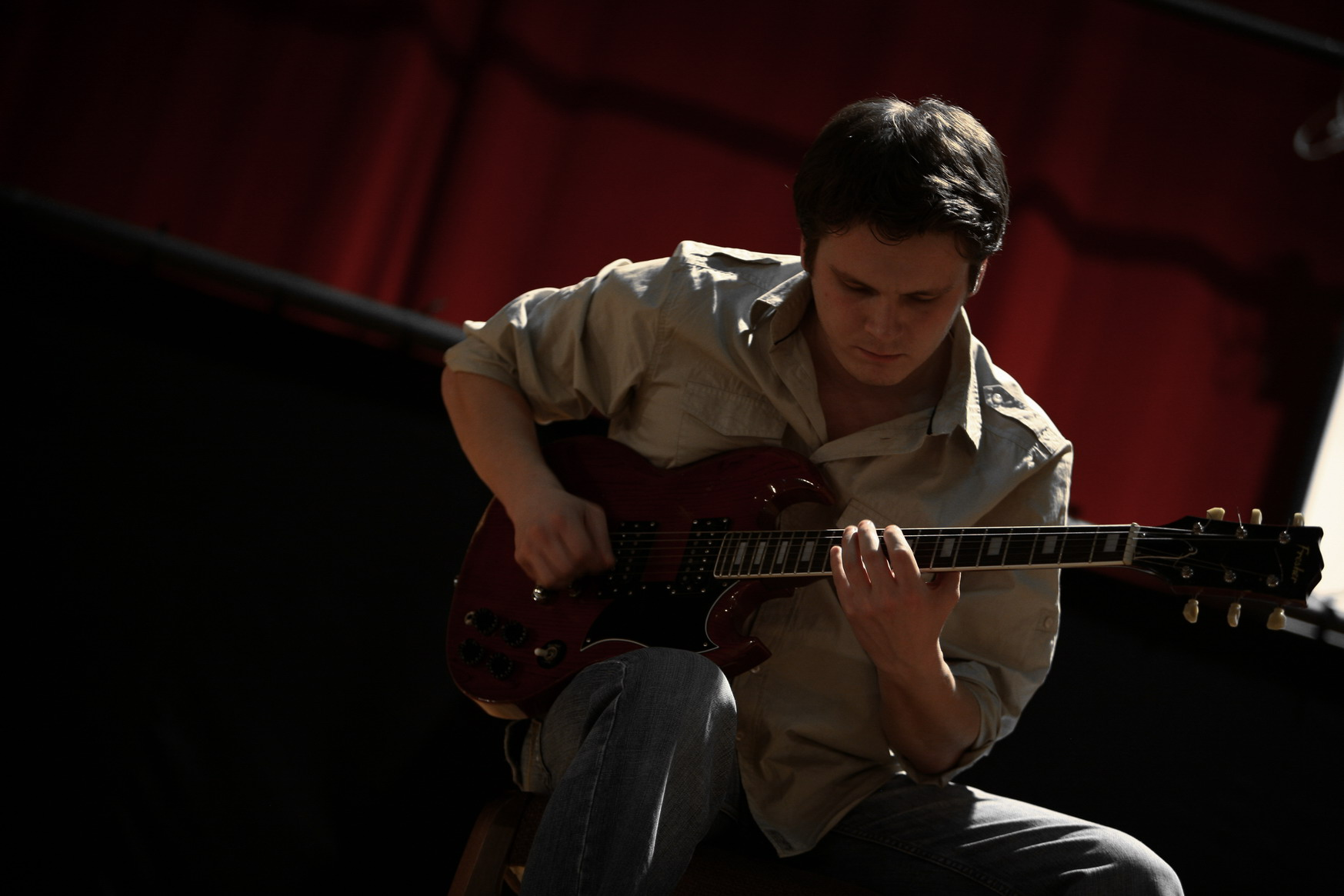 David Kollar performing.